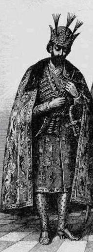 St. Luarsab II, king of Kartli